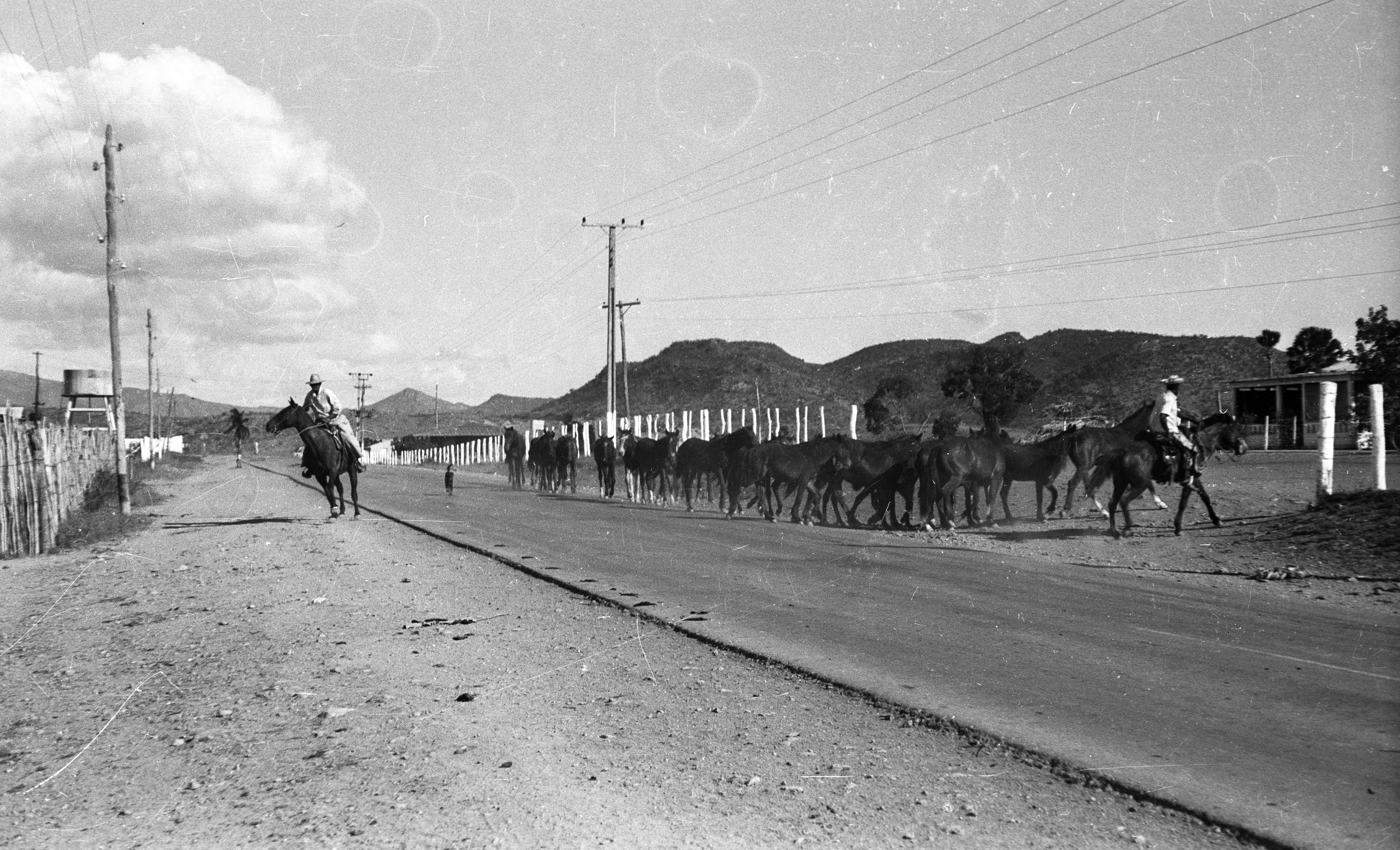 Location: Cuba Tags: horse